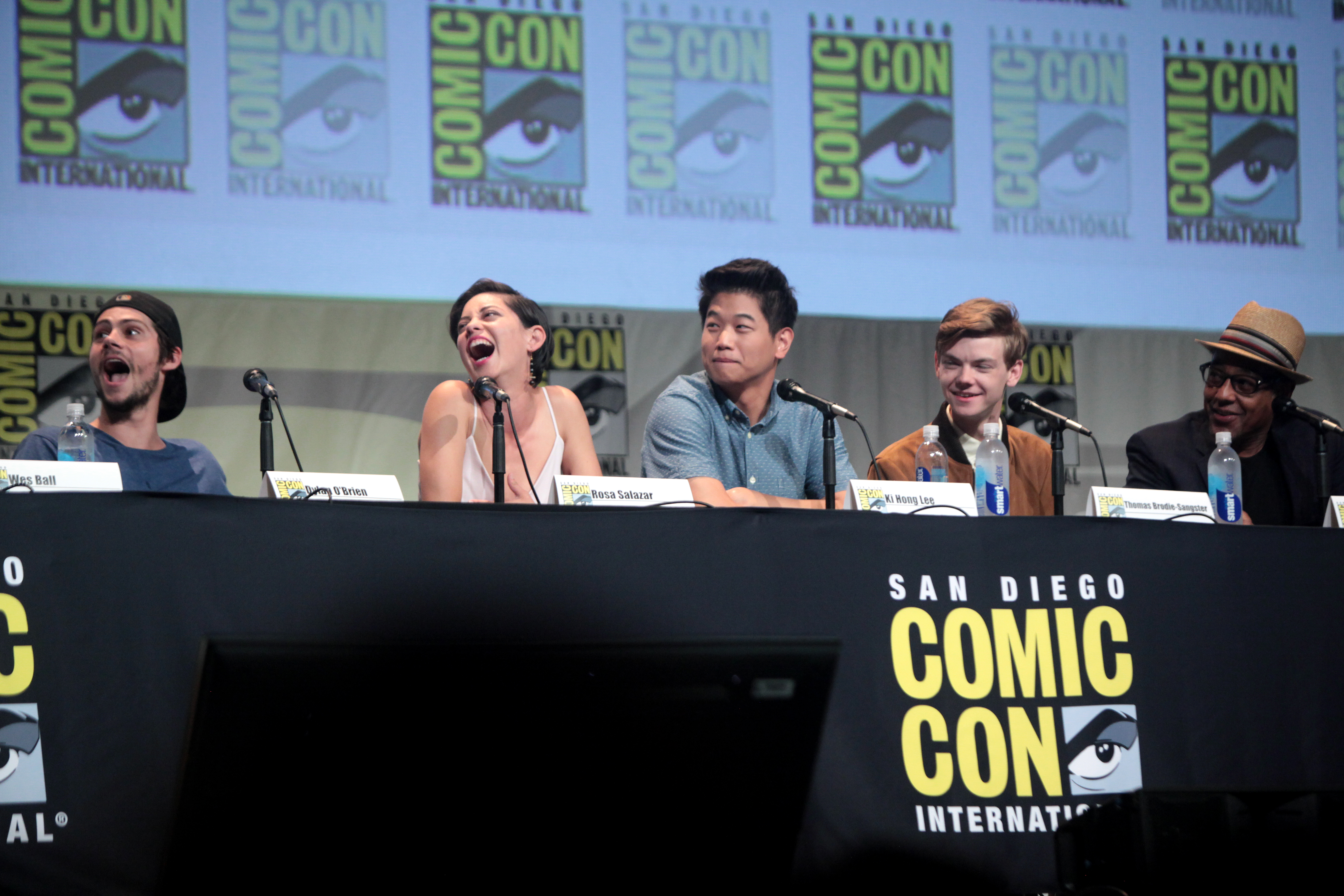 Dylan O'Brien, Rosa Salazar, Ki Hong Lee and Giancarlo Esposito speaking at the 2015 San Diego Comic Con International, for "Maze Runner: The Scorch Trials", at the San Diego Convention Center in San Diego, California.